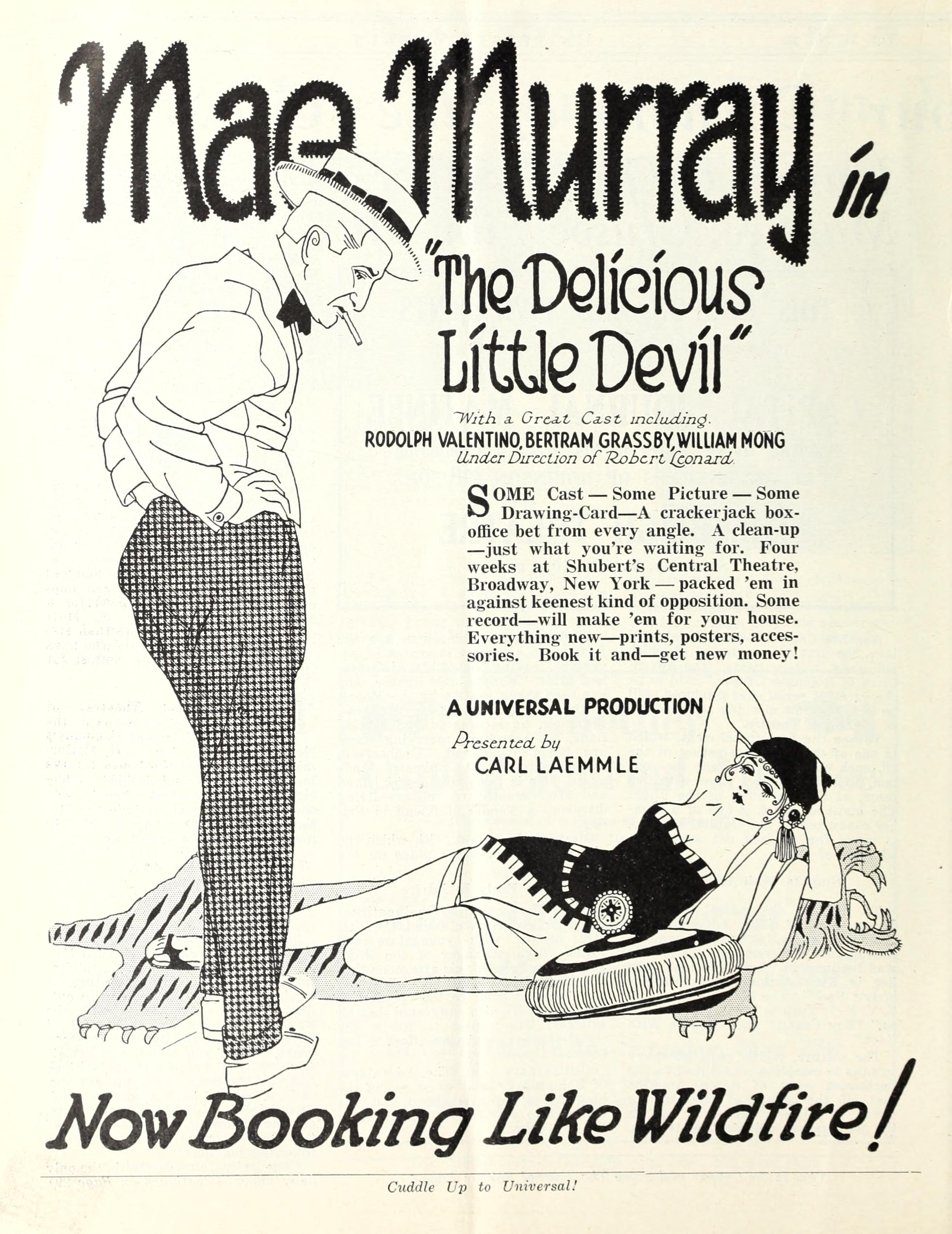 The Delicious Little Devil advertisement